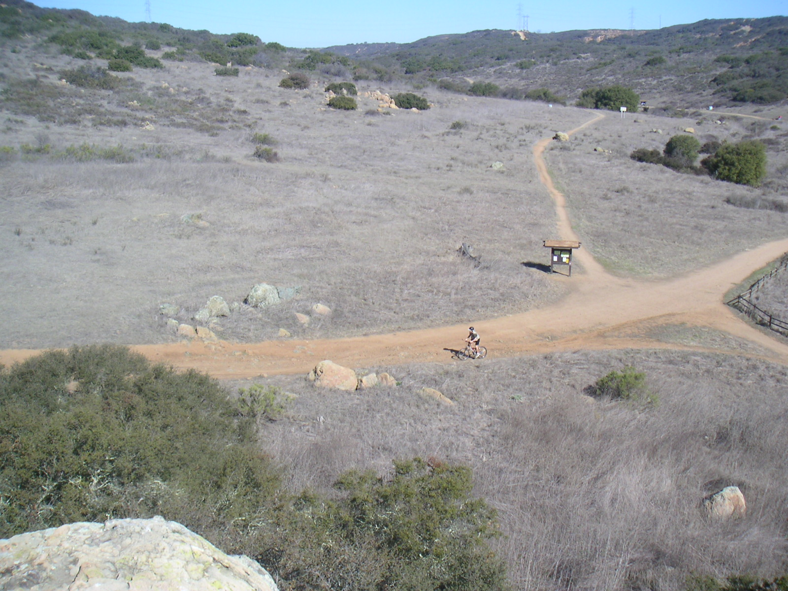 (user:edl1-wiki). A bicyclist at Los Peñasquitos Canyon Preserve near the waterfall.